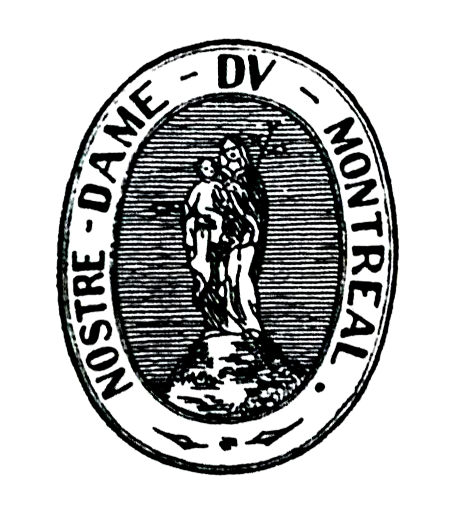 Seal of authorization of the Société de Notre-Dame de Montréal, ca. 1650